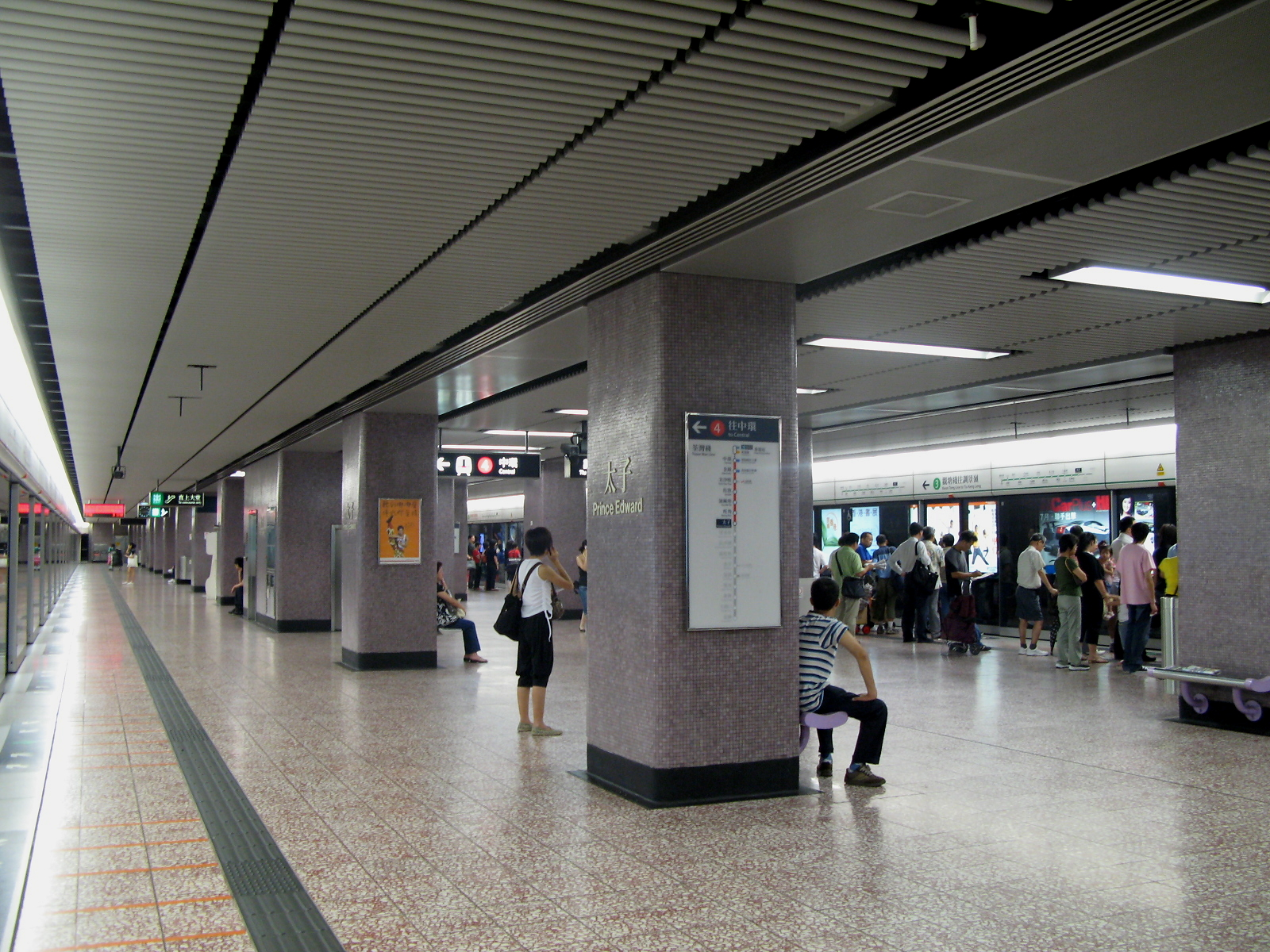 MTR Prince Edward station platforms